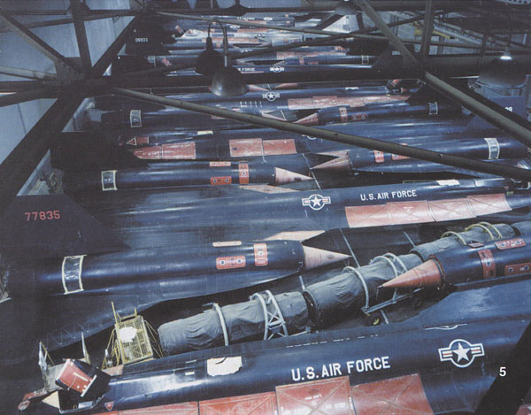 Mothballed A-12s after their retirement in 1968